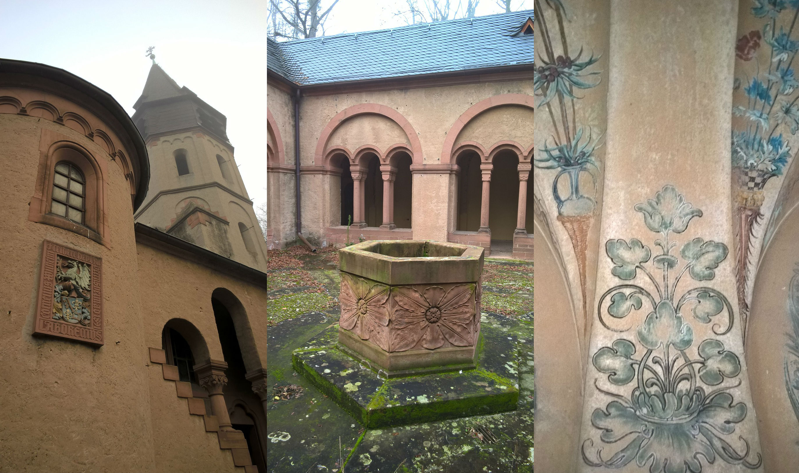 Gottlieben Chapel in Worms Herrnsheim. Church tower, courtyard and cloister, cloister design by Otto Hupp.